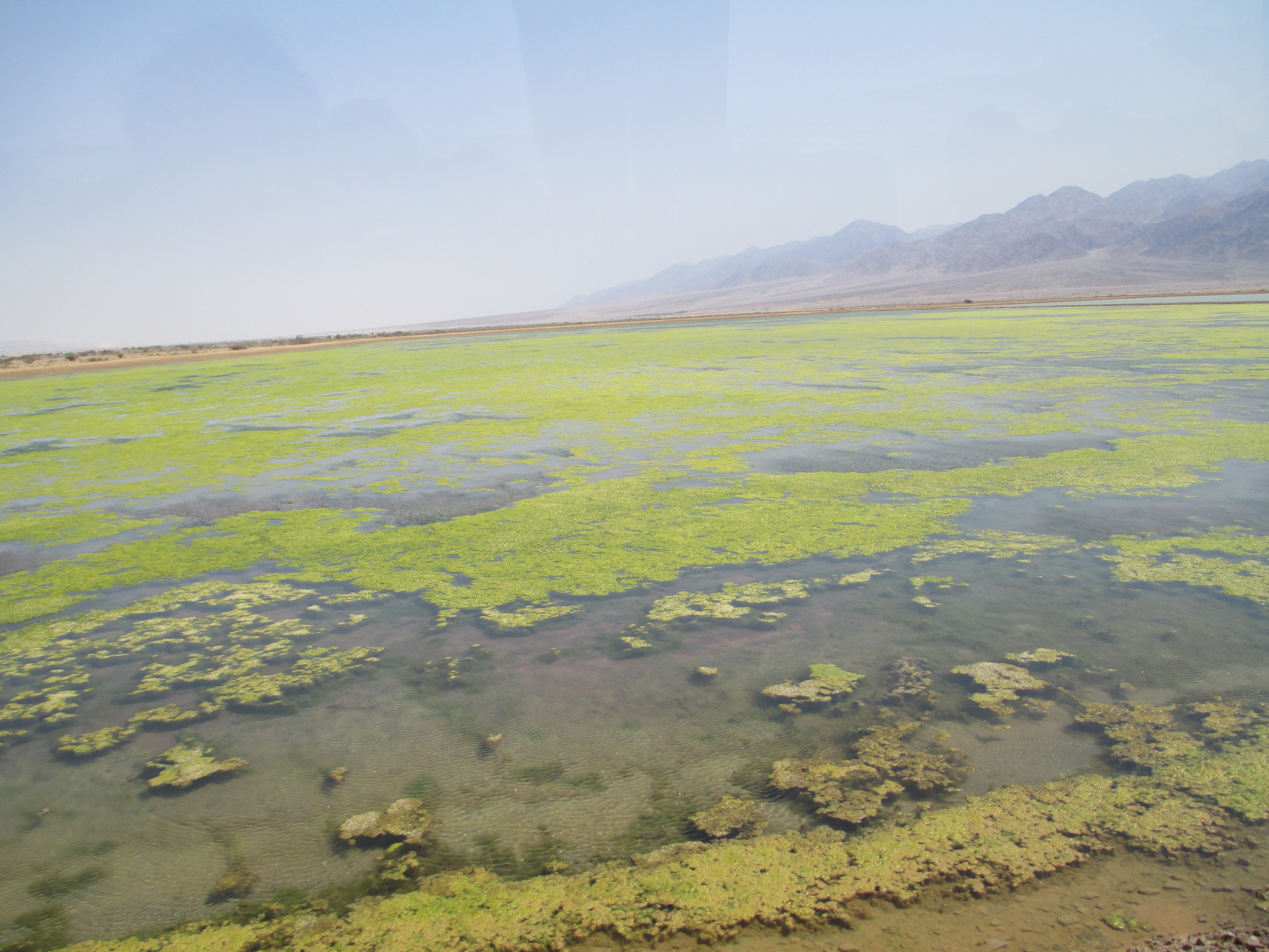 Algae in salt ponds in Avrona